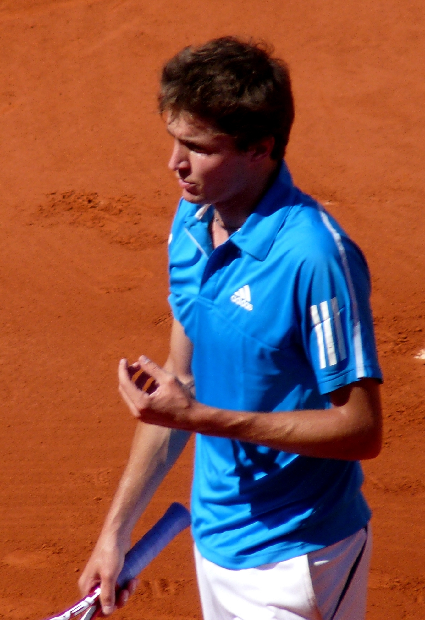 Gilles Simon against Victor Hănescu in the 2009 French Open third round